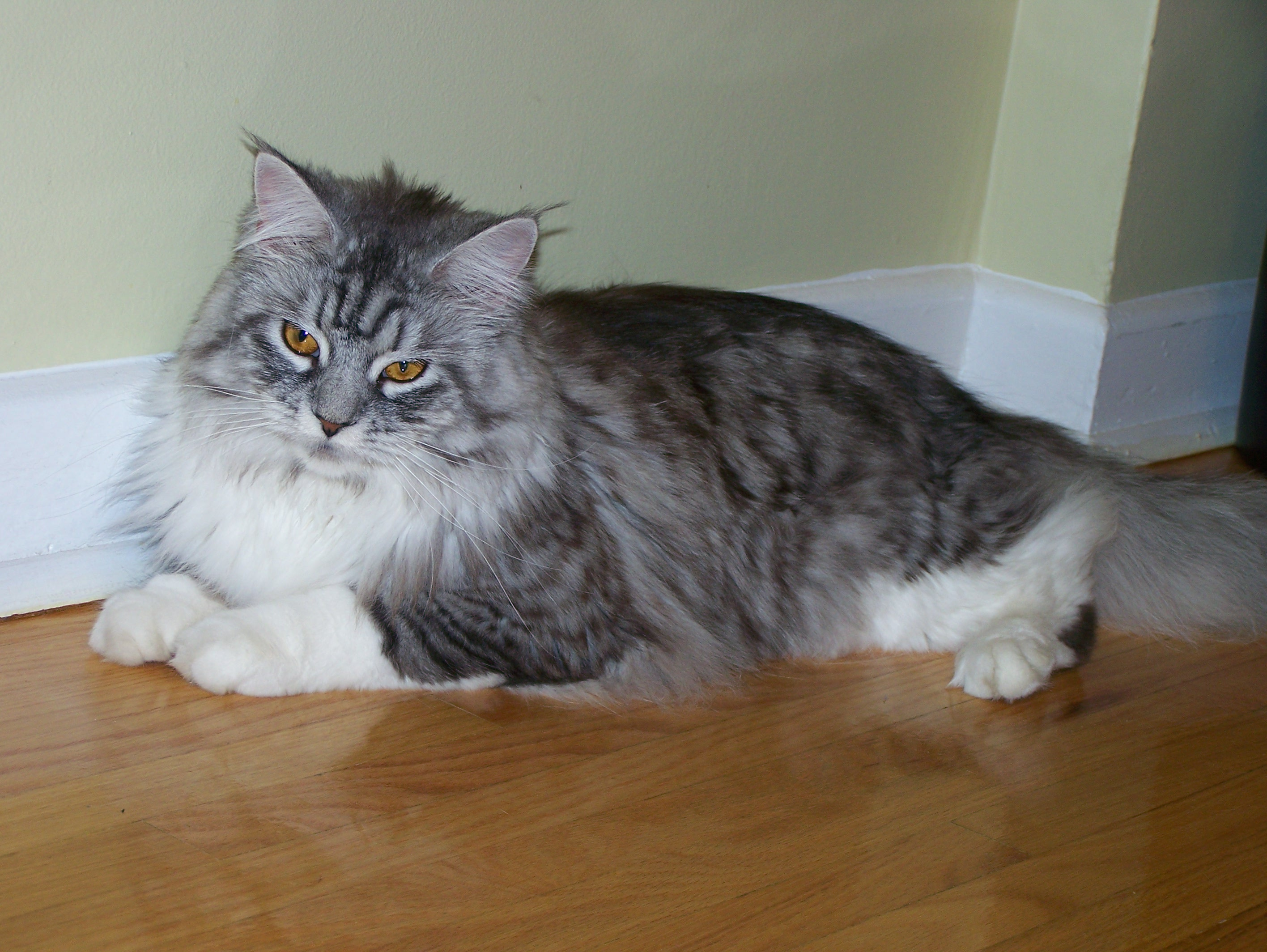 Maine Coon kitty, Toronto, Canada, June 25, 2009.